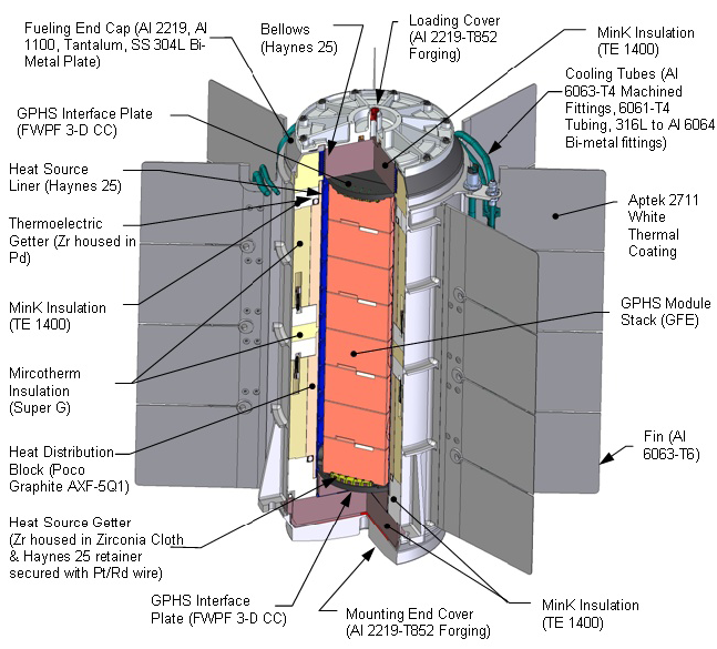 Multi-Mission Radioisotope Thermoelectric Generator. Schematic with english labels.